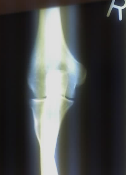 Close-up radiograph, right elbow-joint.